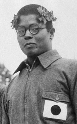 Silver medalist Jack Medica of the United States, gold medalist Noboru Terada of Japan and bronze medalist Shumpei Uto of Japan pose on the podium during the medal ceremony for Swimming Men's 1,500m Freestyle during the Berlin Olympic at Swimming Stadium on August 15, 1936 in Berlin, Germany